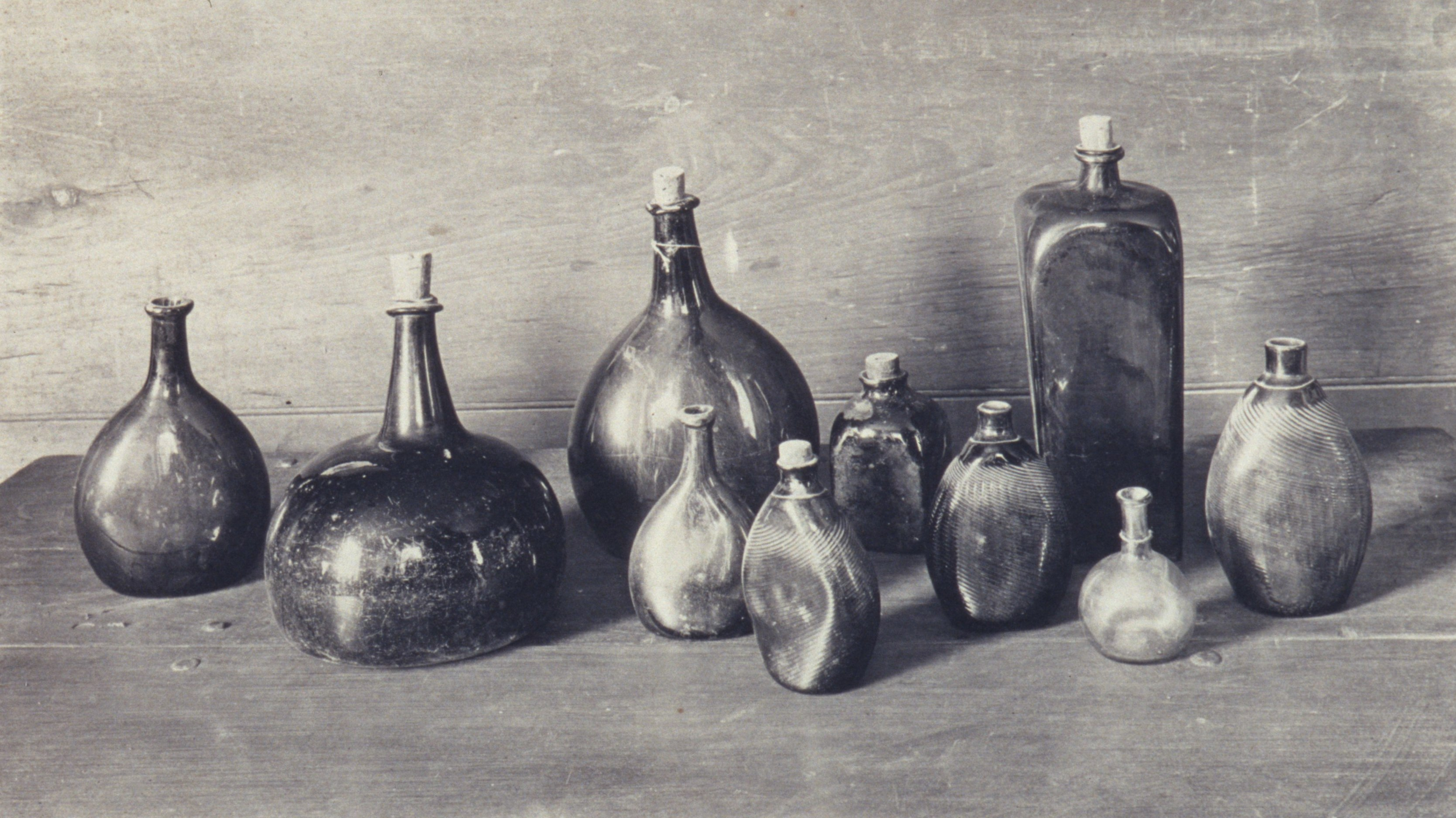 Title: Colonial glassware, specimen illustratons / Allen. Abstract/medium: 2 photographic prints (1 board) : platinum ; 10 x 18 cm. (top image) and 11 x 17 cm. (bottom image) mounted on single gray board, 28 x 23 cm.